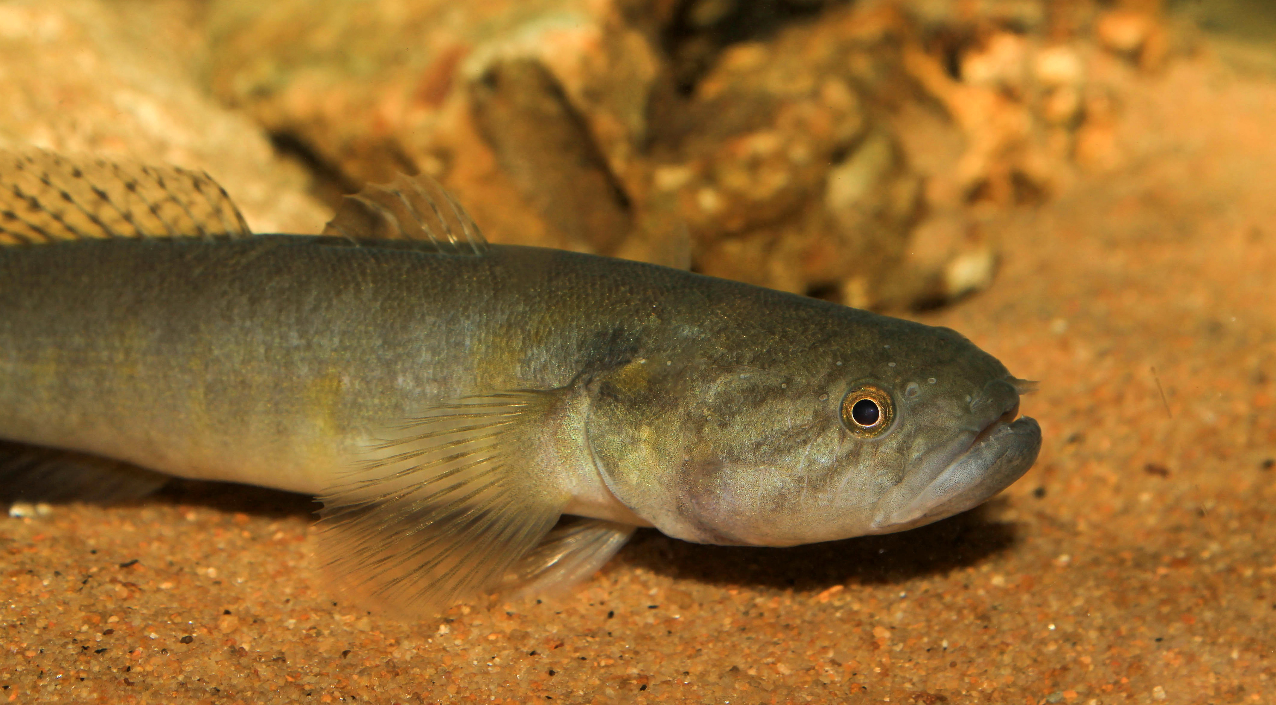 Chinese gudgeon (Bostrychus sinensis)